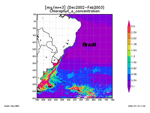 Primary production Brazil-Malvinas Confluence Zone